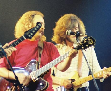 Crosby, Stills, Nash & Young at concert, August, 1974